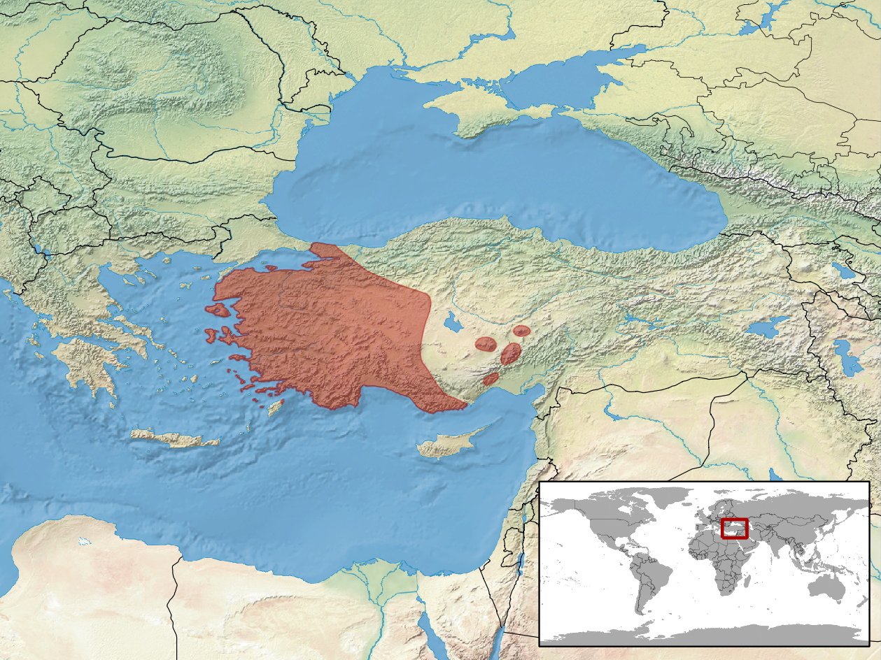 geographic distribution of Montivipera xanthina (Native: Greece; Turkey) Range including Montivipera bulgardaghica, sometimes recognized as conspecific.